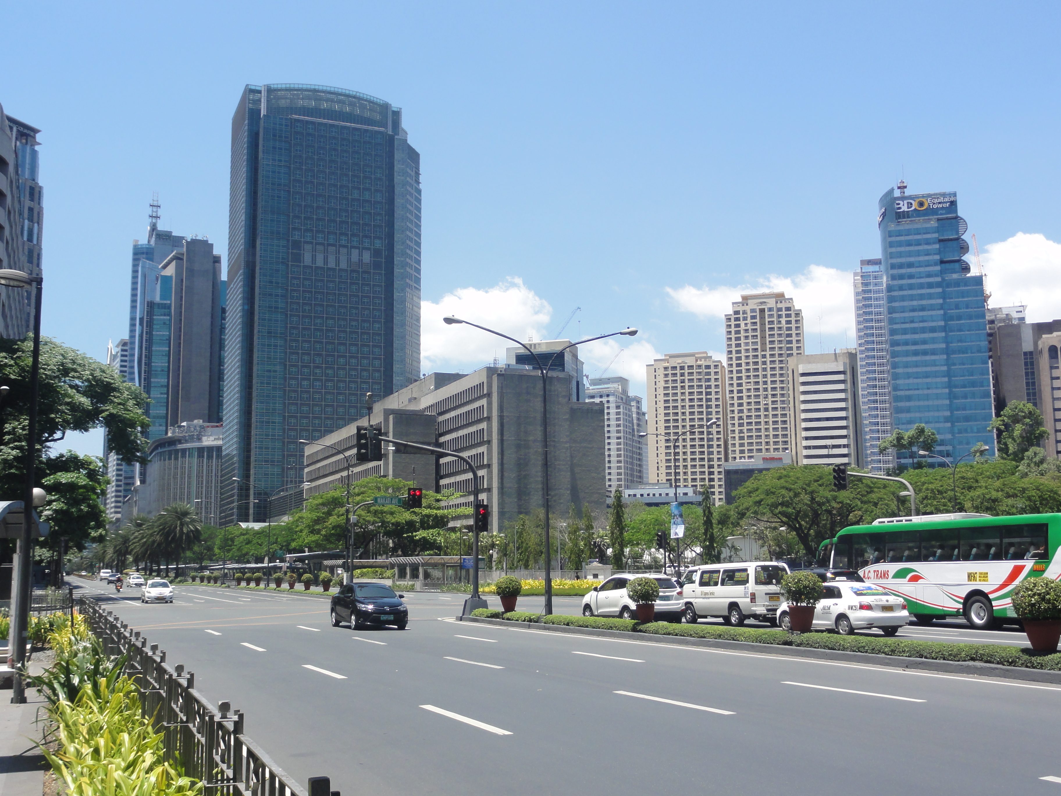 Ayala Avenue in the Central Business District, Makati City